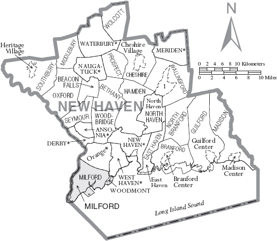 Map of New Haven County, Connecticut, United States with township and municipal boundaries